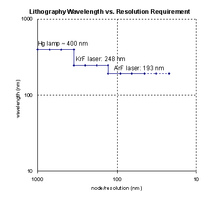 The lithography wavelength has not changed much to match the required resolution. The required resolution has been achieved when necessary by a combination of resolution enhancement techniques such as off-axis illumination and phase-shift masks, higher numerical aperture lenses, and more recently fluid immersion. Beyond 45 nm node, the 193 nm wavelength is further extended by double patterning.